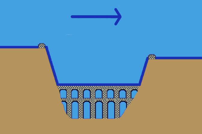 based on this picture: Image:Rome.Aqueduct.Siphon.png